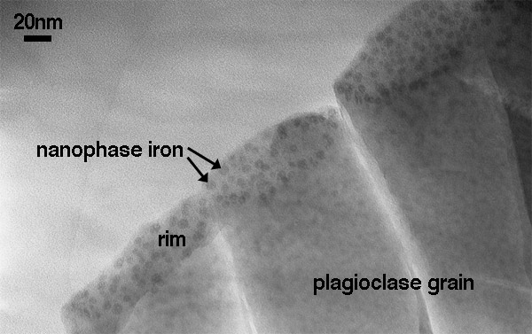 TEM bright field image of a grain of lunar soil 10084 with a weathered rim